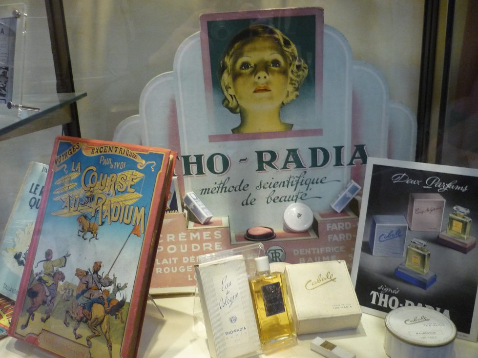 Care cosmetics containing Radium; reproduction of products sold in the first part of the 20th century – Marie Curie Museum Paris.